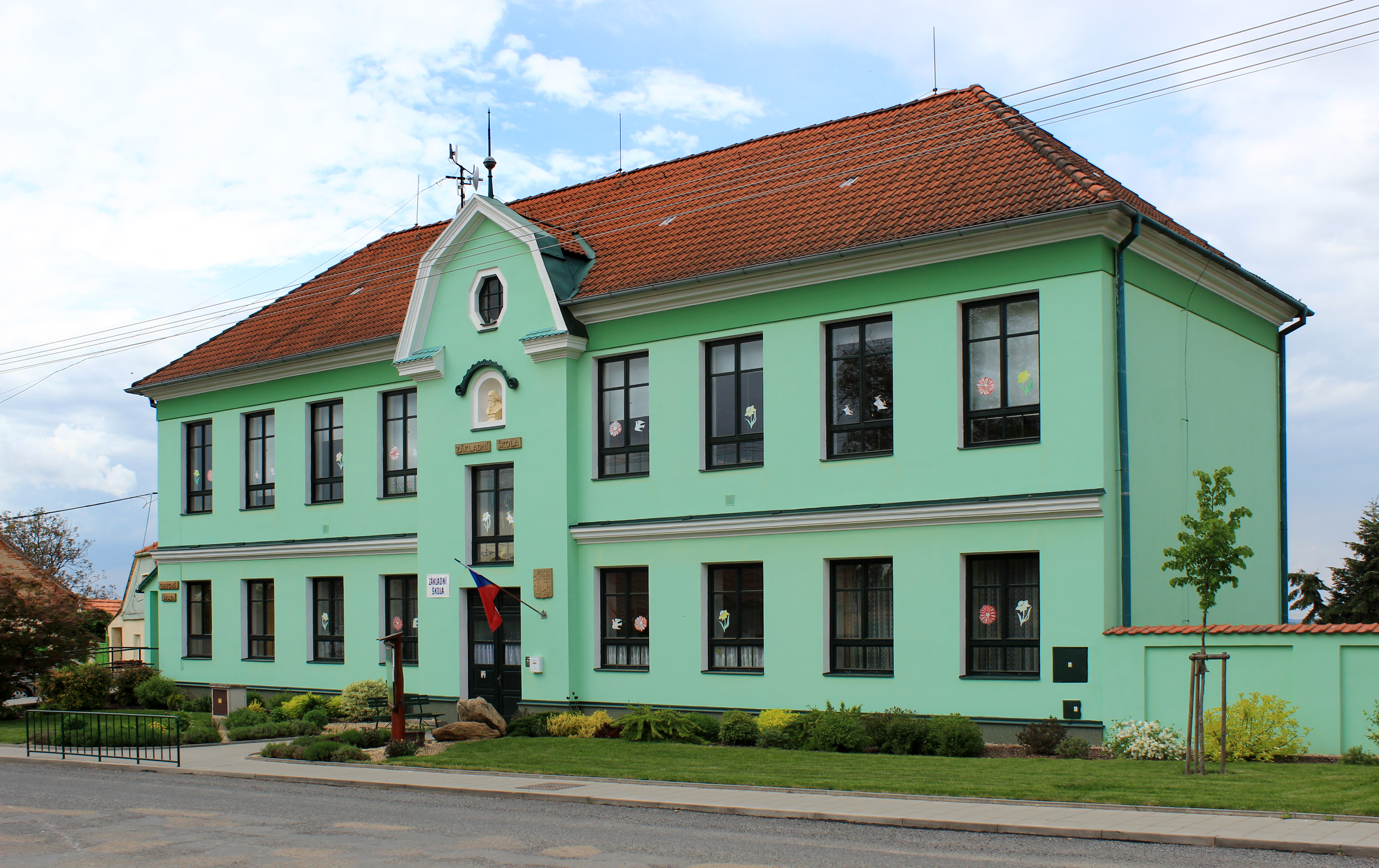 Municipal office and elementary school in Lesonice, Czech Republic.